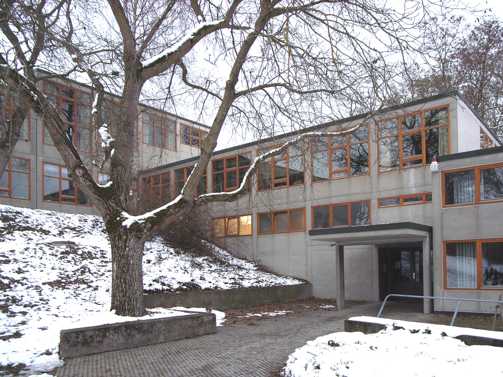 The Ulm School of Design was an international center for teaching, development, and research in the field of designing industrial products. Designers were trained in five areas—Industrial Design, Visual Communication, Building, Information, and Film. The program lasted four years, and students graduated with a diploma. Classes were divided into departmental work, which concentrated on the practice of design, and relevant theoretical subjects. Teaching materials and methodologies were developed at the Ulm School for a whole new profession, that of the designer. The ongoing further development of the teaching methods of Ulm has led to an entire model that is still relevant in the teaching of design today.